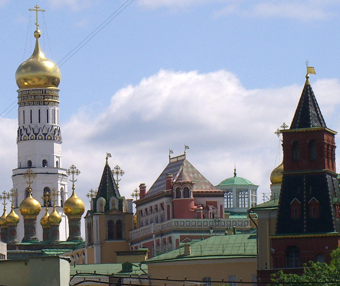 Terem Palace as seen from Mokhovaya str